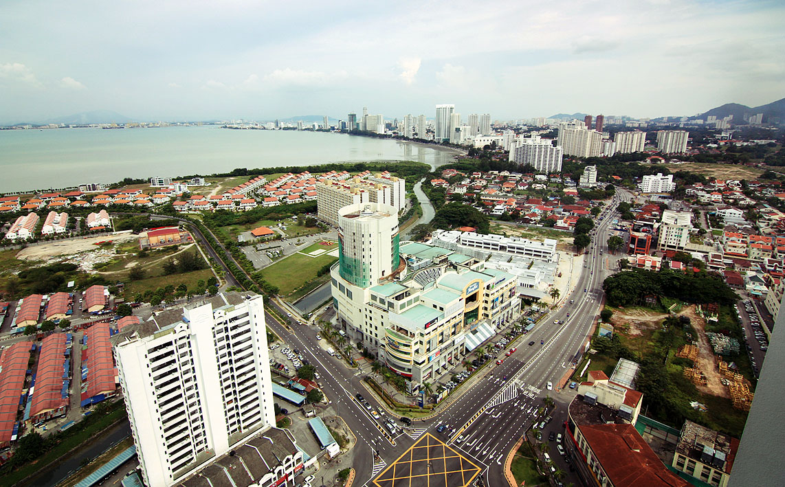 aerial view looking from fettes residence towards gurney and georgetown.